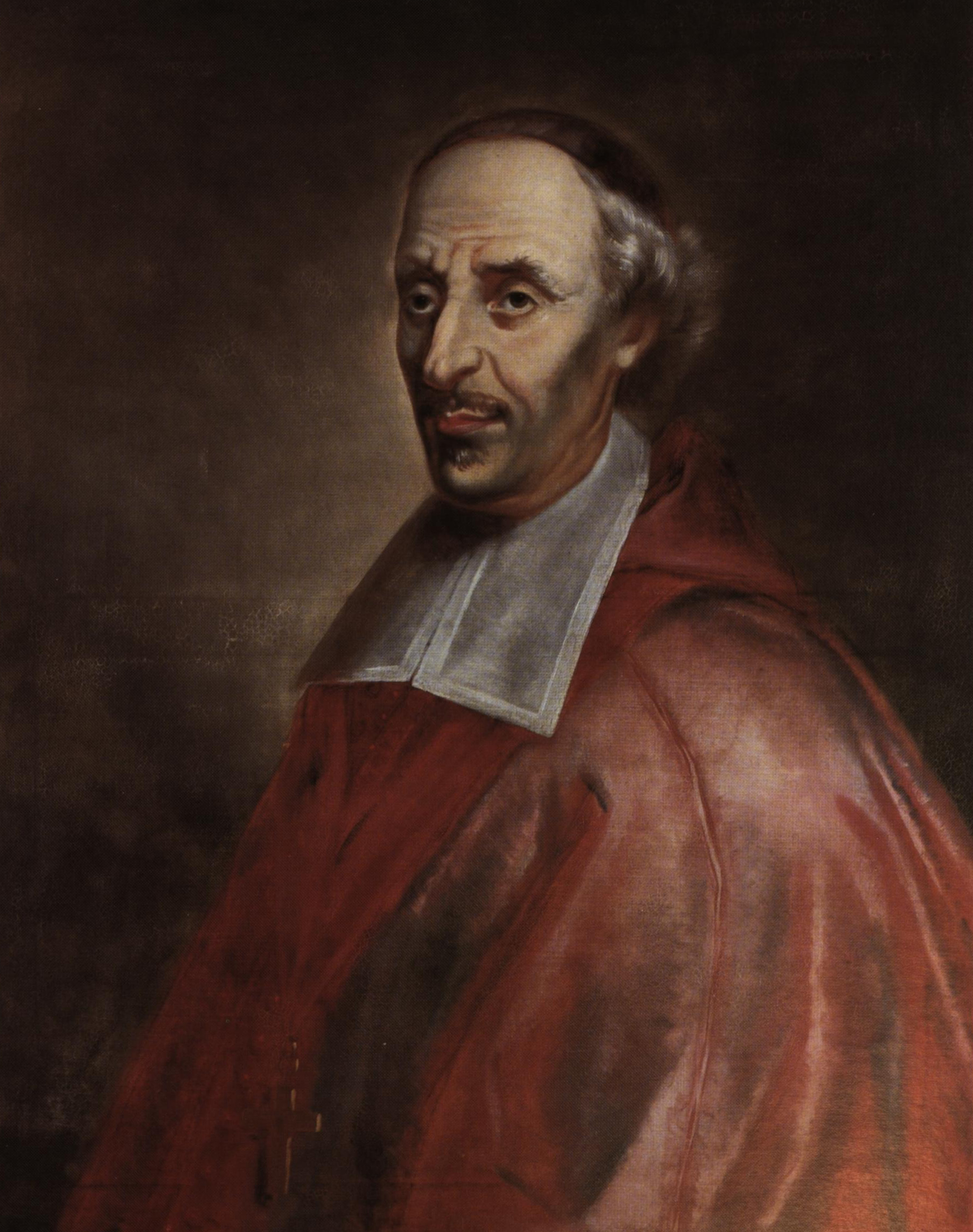 Portrait of Bishop François de Montmorency-Laval, first bishop of Quebec.